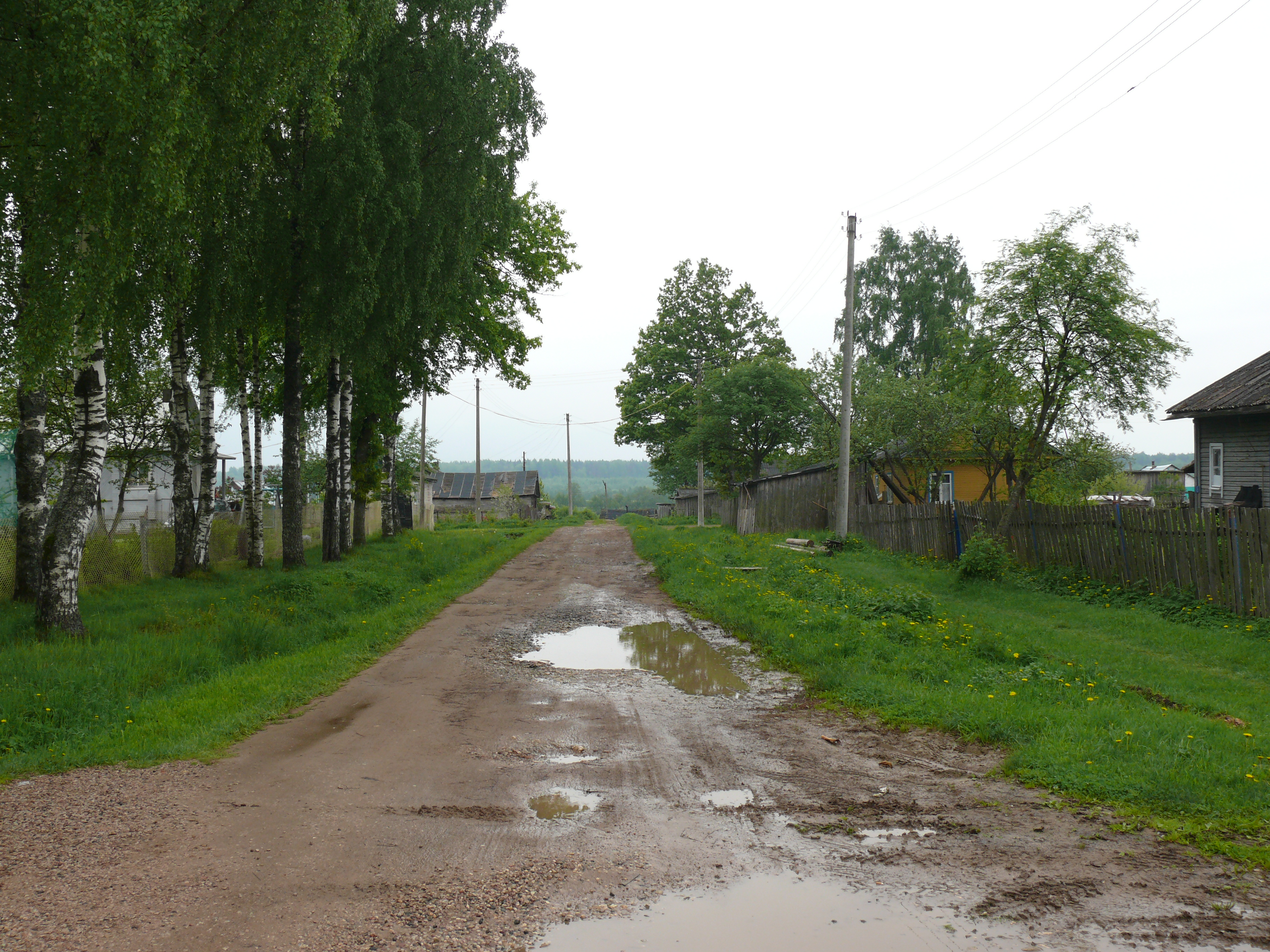 Road to the Msta river in Piatnitsa viillage, Novgorodsky district, Novgorod oblast, Russia